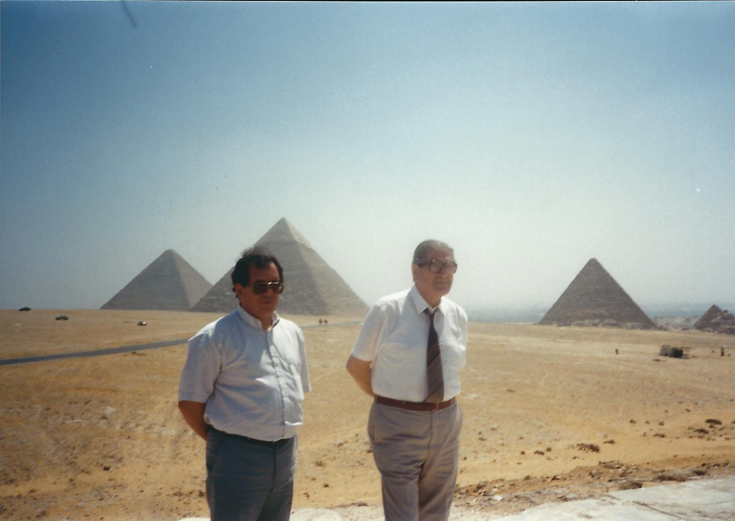 Visita diplomática